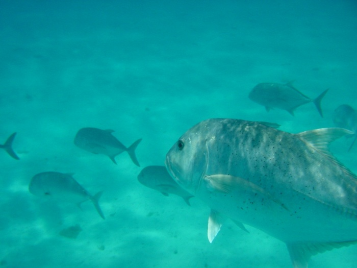 reef0613, NOAA's Coral Kingdom Collection. Northwest Hawaiian islands. A school of giant trevally over sand